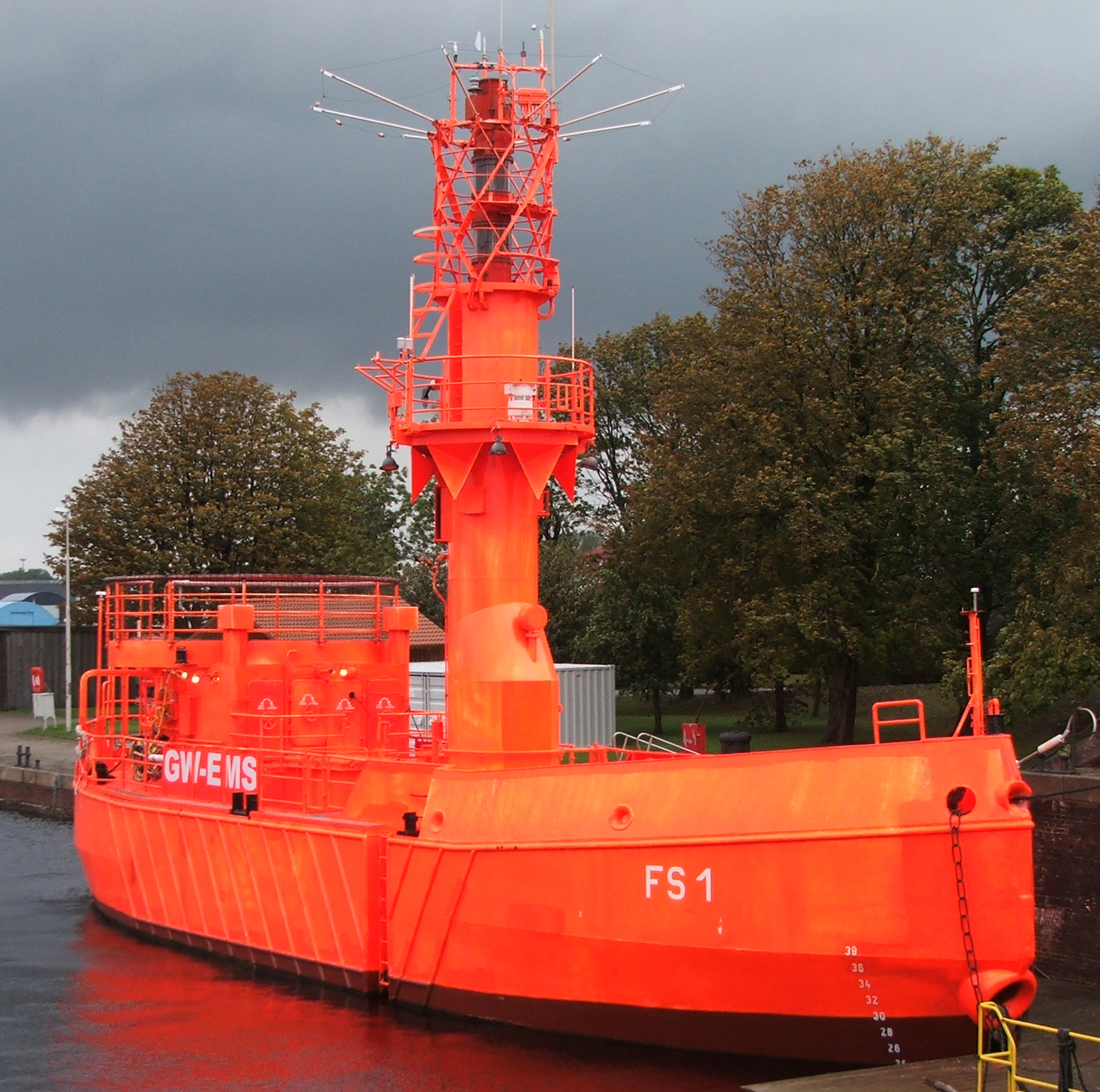 Lightvessel GW Ems